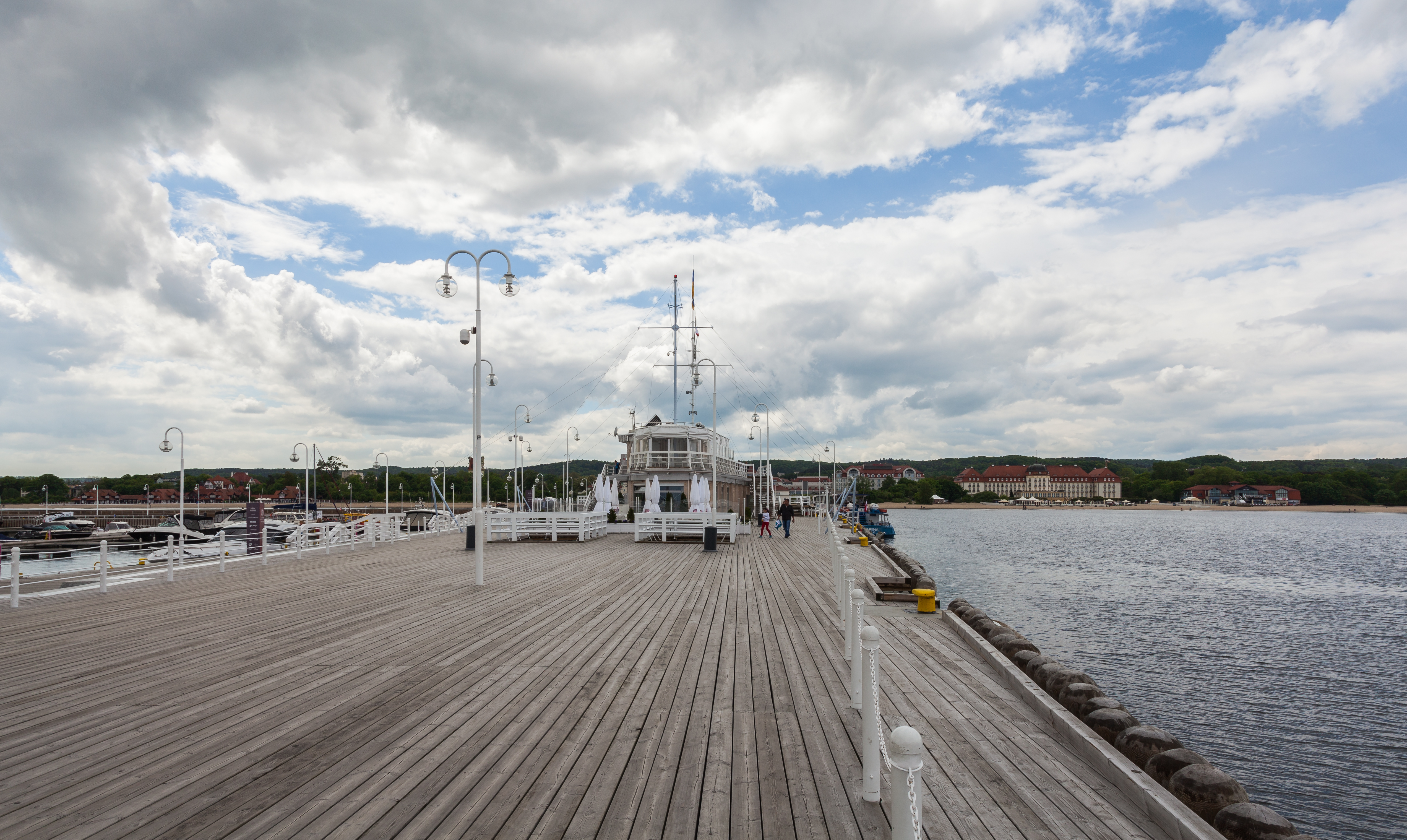 Promenade pier of Sopot, Poland